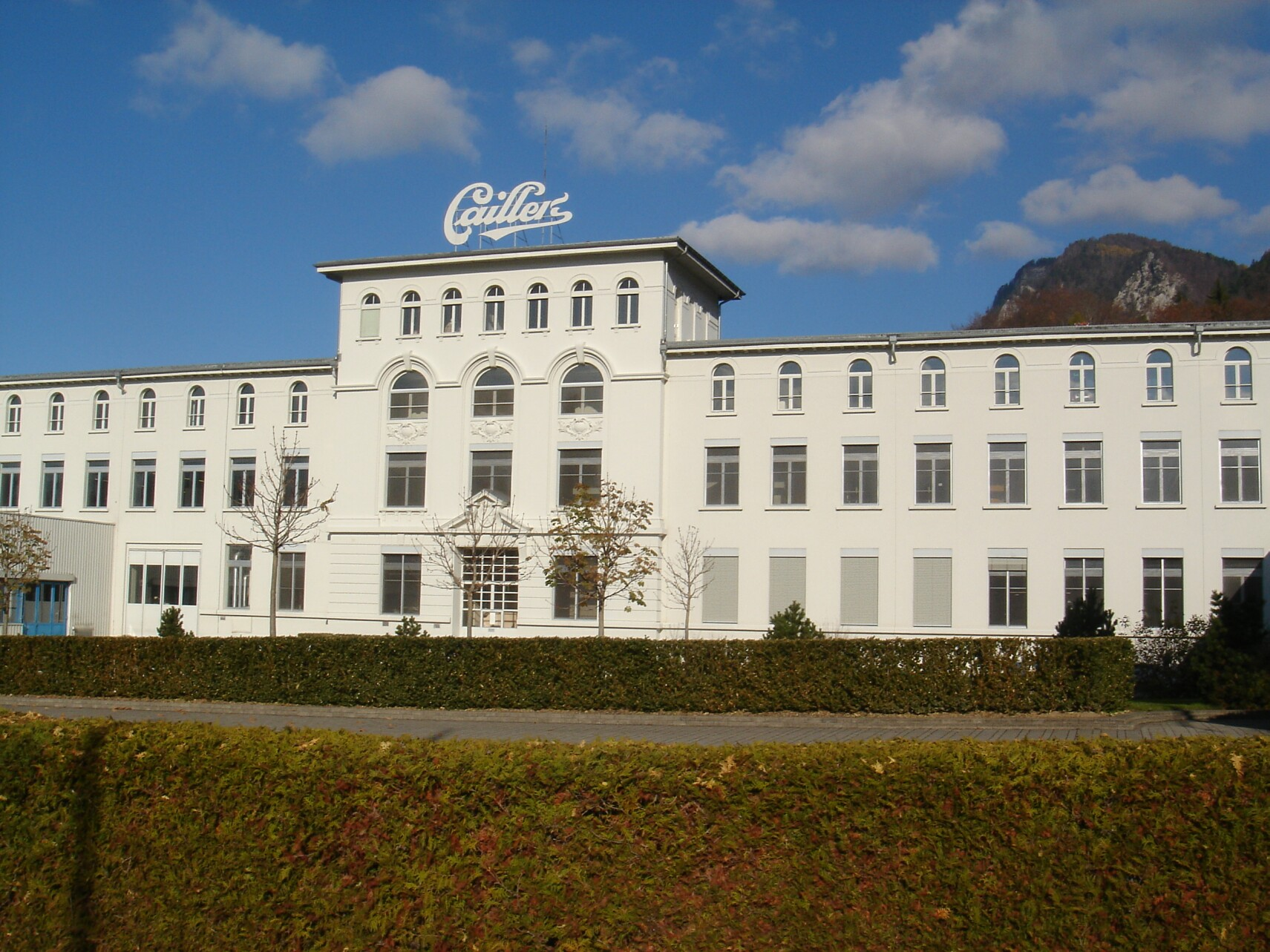 Cailler chocolate factory of Nestlé in Broc-Fabrique